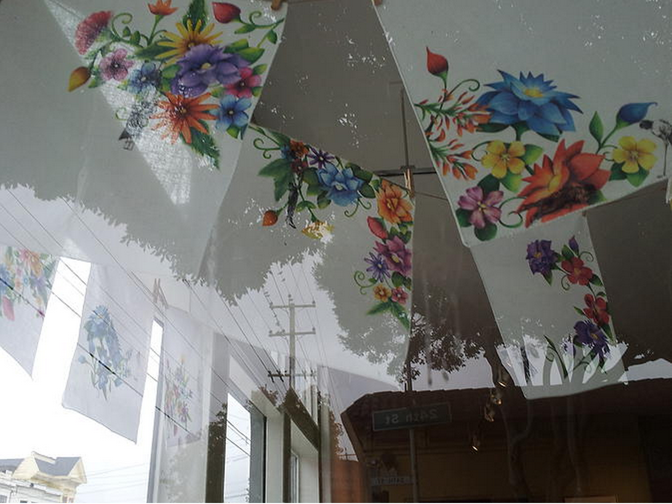 "Pinches Rinches" Series (2011), as featured in Galeria de la Raza's Studio 24, San Francisco, CA. Winter, 2013. This image that I took was subsequently included in artist's website